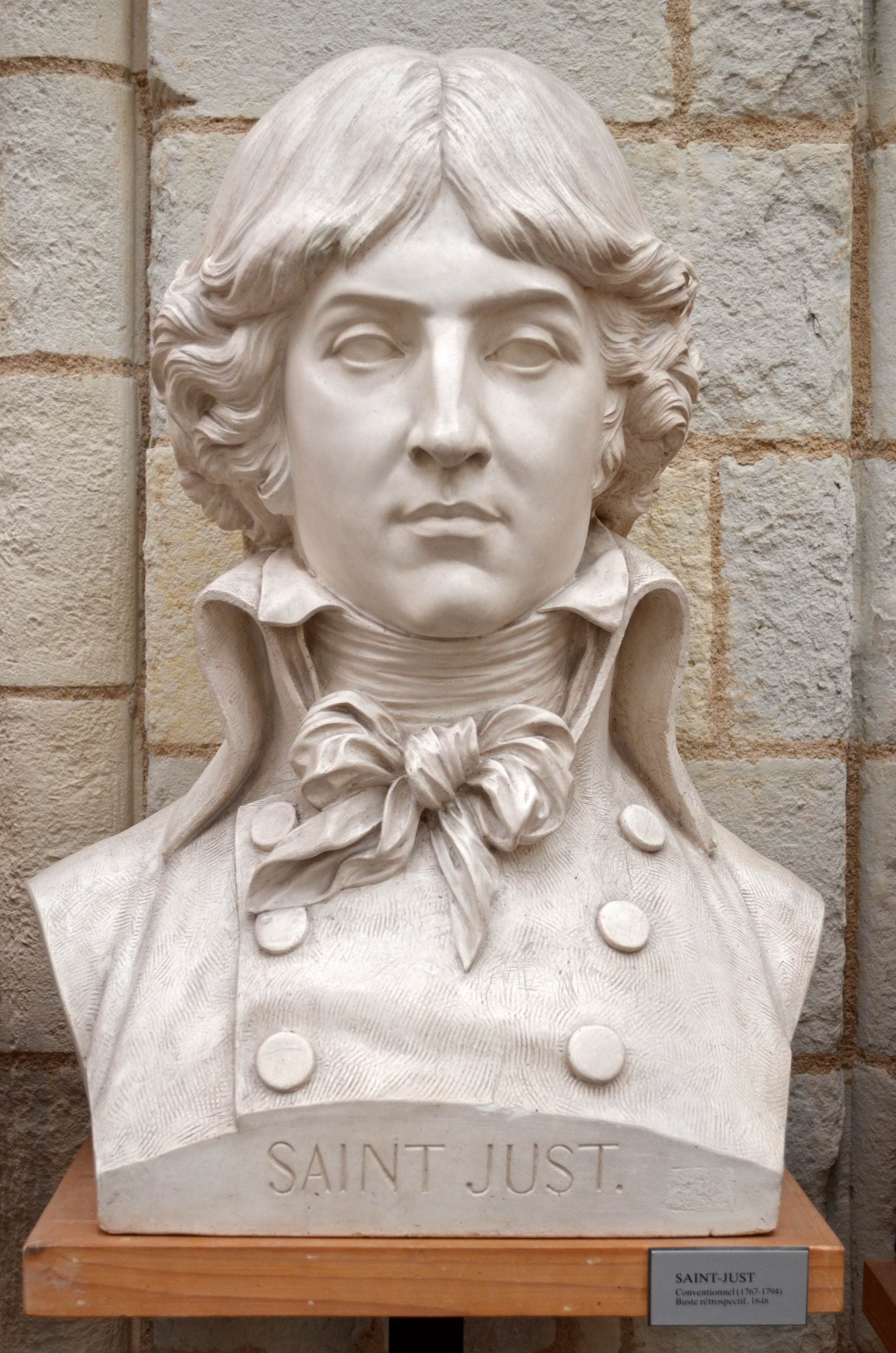 Bust of Louis Antoine de Saint-Just by french sculptor David d'Angers (1848). Exhibited in David d'Angers gallery, Angers, France